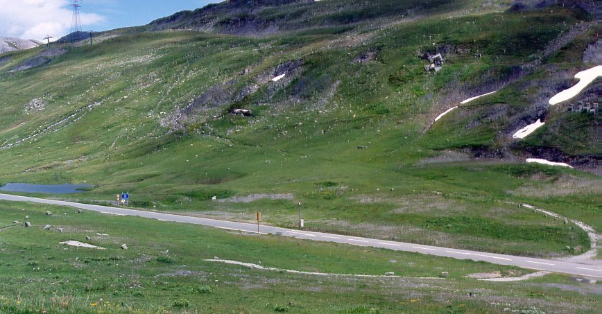 View of the stone circle at Little Saint Bernard Pass, France crossing diagonally by the road. Remains of World War II fortifications are also visible.